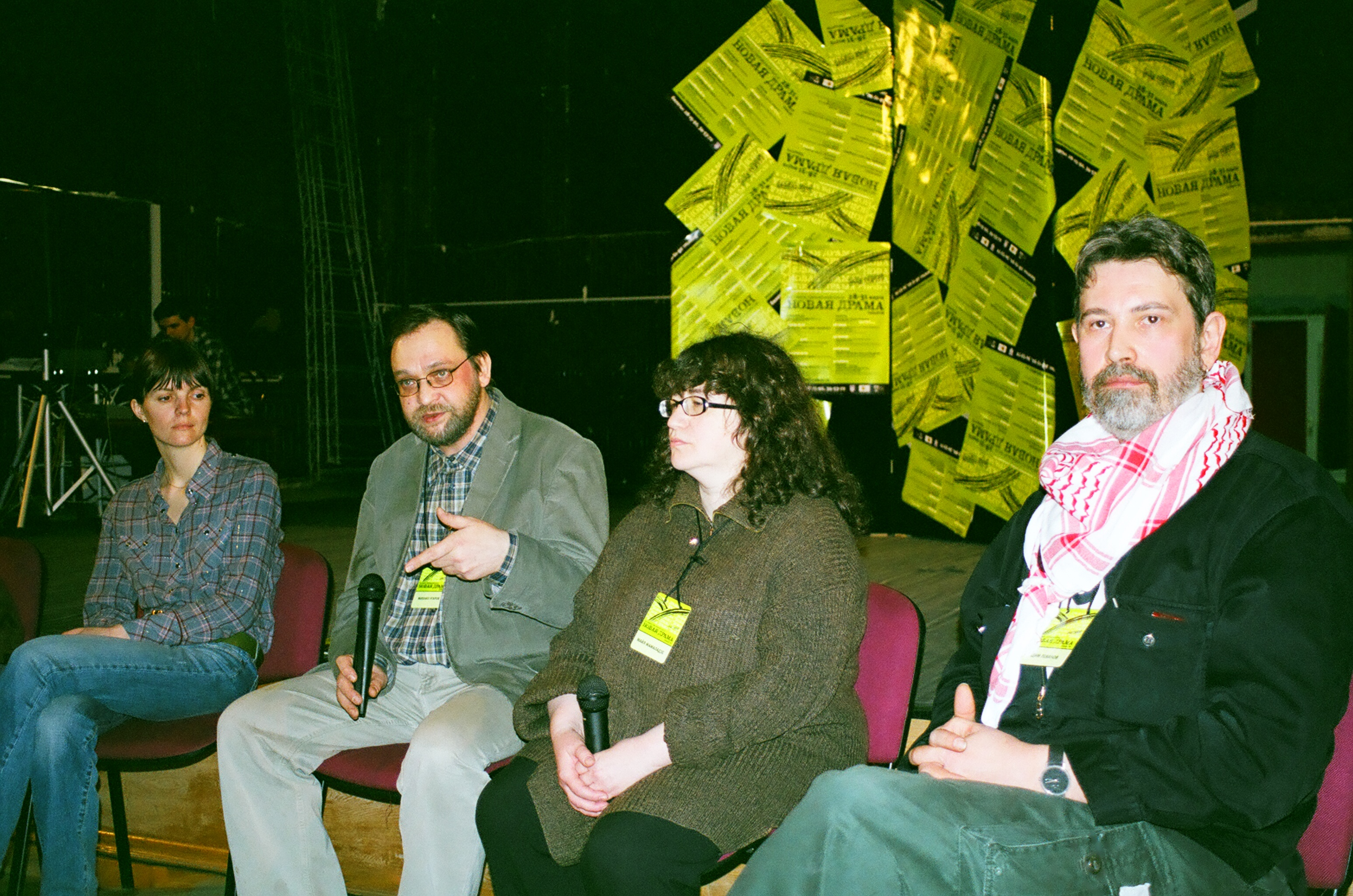 Discussion "Togliatti drama: the Russian context" at the theater festival "New drama" in Togliatti". From left to right: theater critic Kristina Matvienko, Director and playwright Mikhail Ugarov, theater critic Maya Mamaladze, playwright Vadim Levanov. Chamber hall of the theatre "Koleso" on Leningradskaya Street, 31, Togliatti, Russia. 31 March 2007.